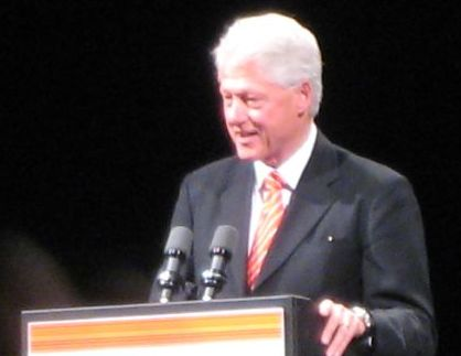 The Big Dog